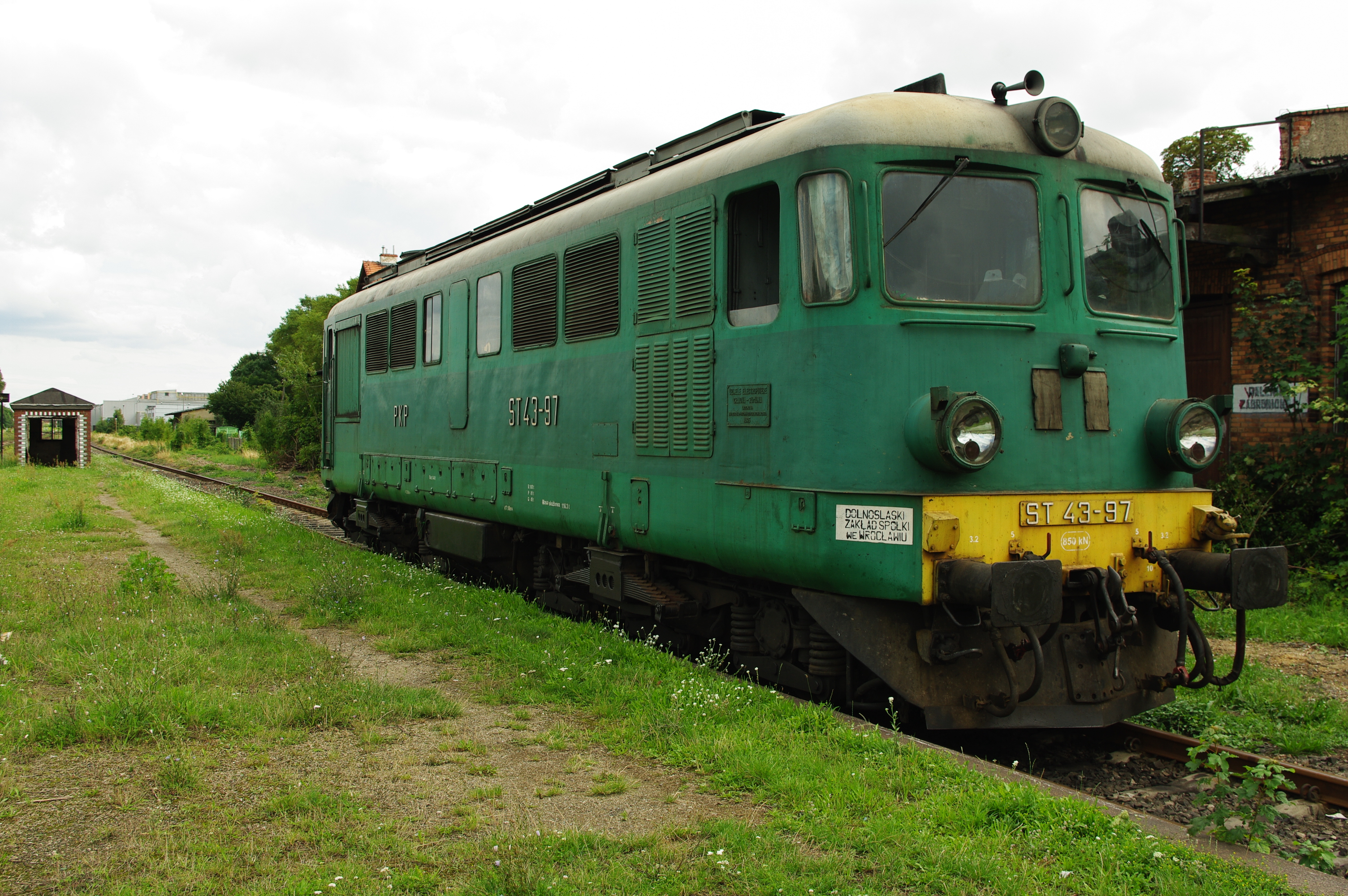 ST43-97 (Polish locomotive) in Jawor